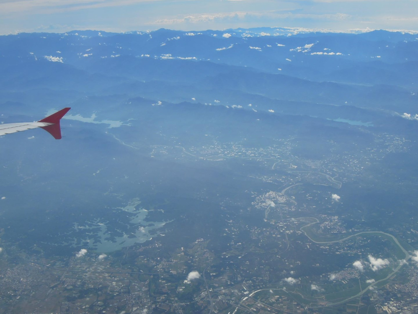 Wushantou Dam (also known as Coral Lake), Zengwen Dam and Hanhua Dam, Tainan. This photo was taken from airplane window.